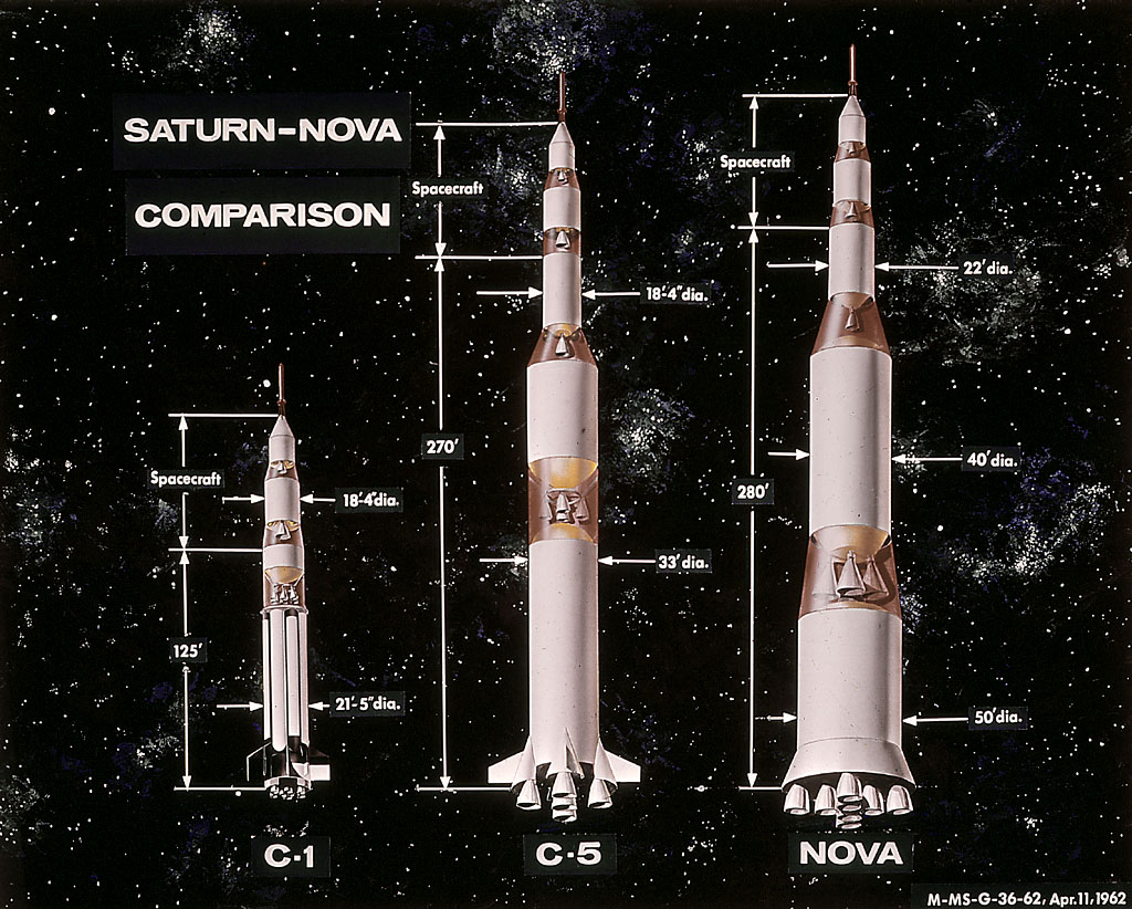 In this 1962 artist's concept, a proposed Nova rocket, shown at right, is compared to a Saturn C-1, left, and a Saturn C-5, center. Note that the early designs for the Saturn rockets each have an additional stage that was omitted on the production vehicles. The Marshall Space Flight Center directed studies of Nova configuration from 1960 to 1962 as a means of achieving a manned lunar landing with a direct flight to the Moon. Various configurations of the vehicle were examined, the largest being a five-stage vehicle using eight F-1 engines in the first stage. Although the program was effectively cancelled in 1962 when NASA planners selected the lunar-orbital rendezvous mode, the proposed F-1 engine was eventually used to propel the first stage of the Saturn V launch vehicle in the Apollo Program.